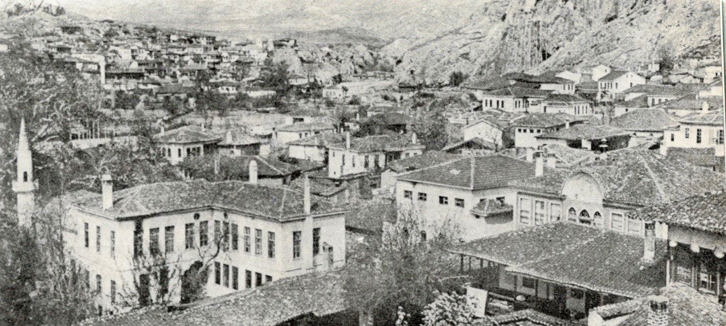 Old picture with a panoramic view of Valovishta (Demir Hisar) in Aegean Macedonia (nowadays Σιδηρόκαστρο in Greece)